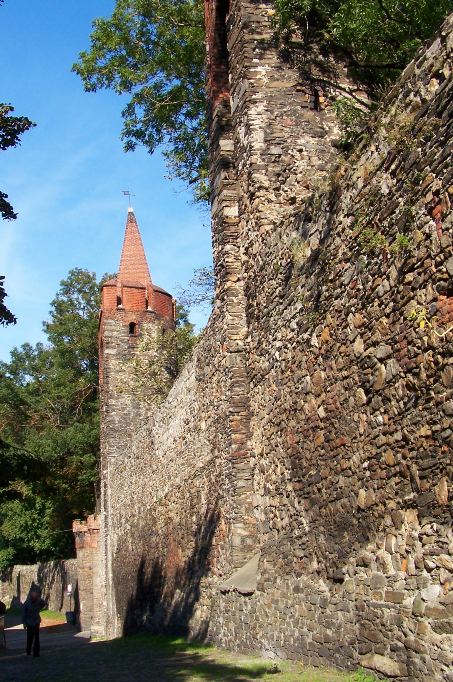 Defensive walls in Paczków (Lower Silesia, Poland).